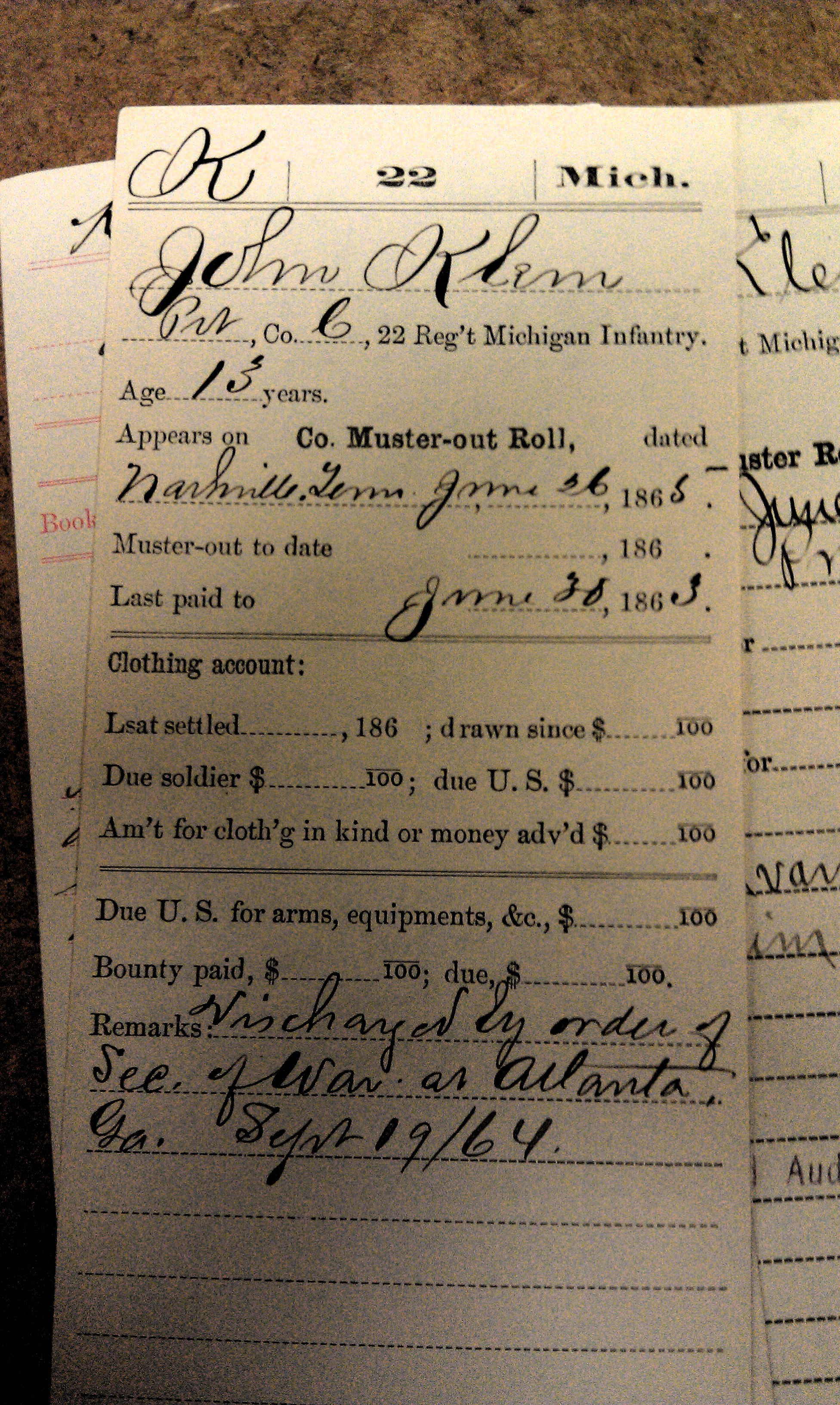 American Civil War muster records index card for John Lincoln Clem, showing he enlisted named Klem. From the US National Archive